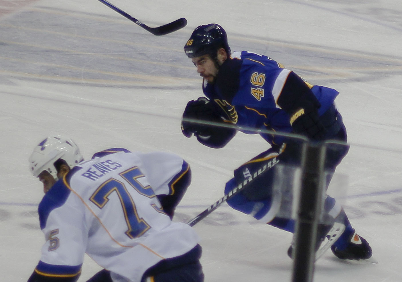 Roman Polak of the STL Blues